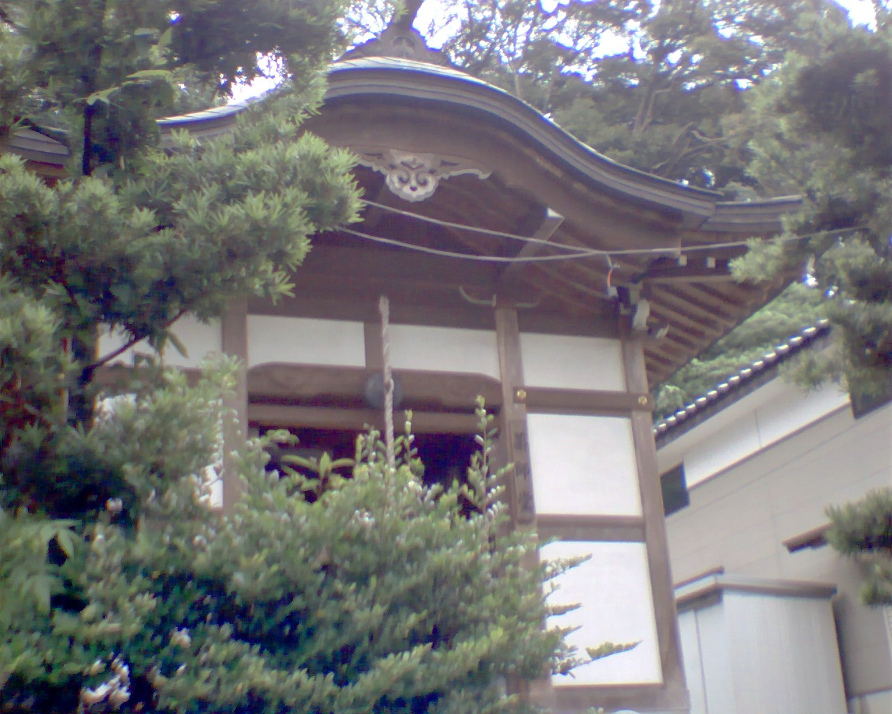 en : This photograph is a mini temple called Yakushi-dou (ja : 薬師堂) on a shrine named 'Kasuga shrine' (or 'Kasuga jinja' , ja : '春日神社'), in the Kasuga city, Fukuoka prefecture, Japan.Tradition says that this shrine originated with onshrine in Amenokoyaneno-mikoto by the Prince Nakanooe (Emperor Tenchi) long ago, and its famous for the new year's event 'Kasuga no Mukooshi'(ja : '春日の婿押し'). ja : これは日本の福岡県春日市にある春日神社の薬師堂の写真である。